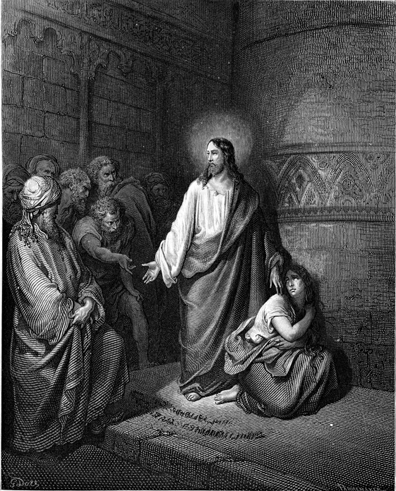 Gustave Doré's "Jesus and the Woman Taken in Adultery"